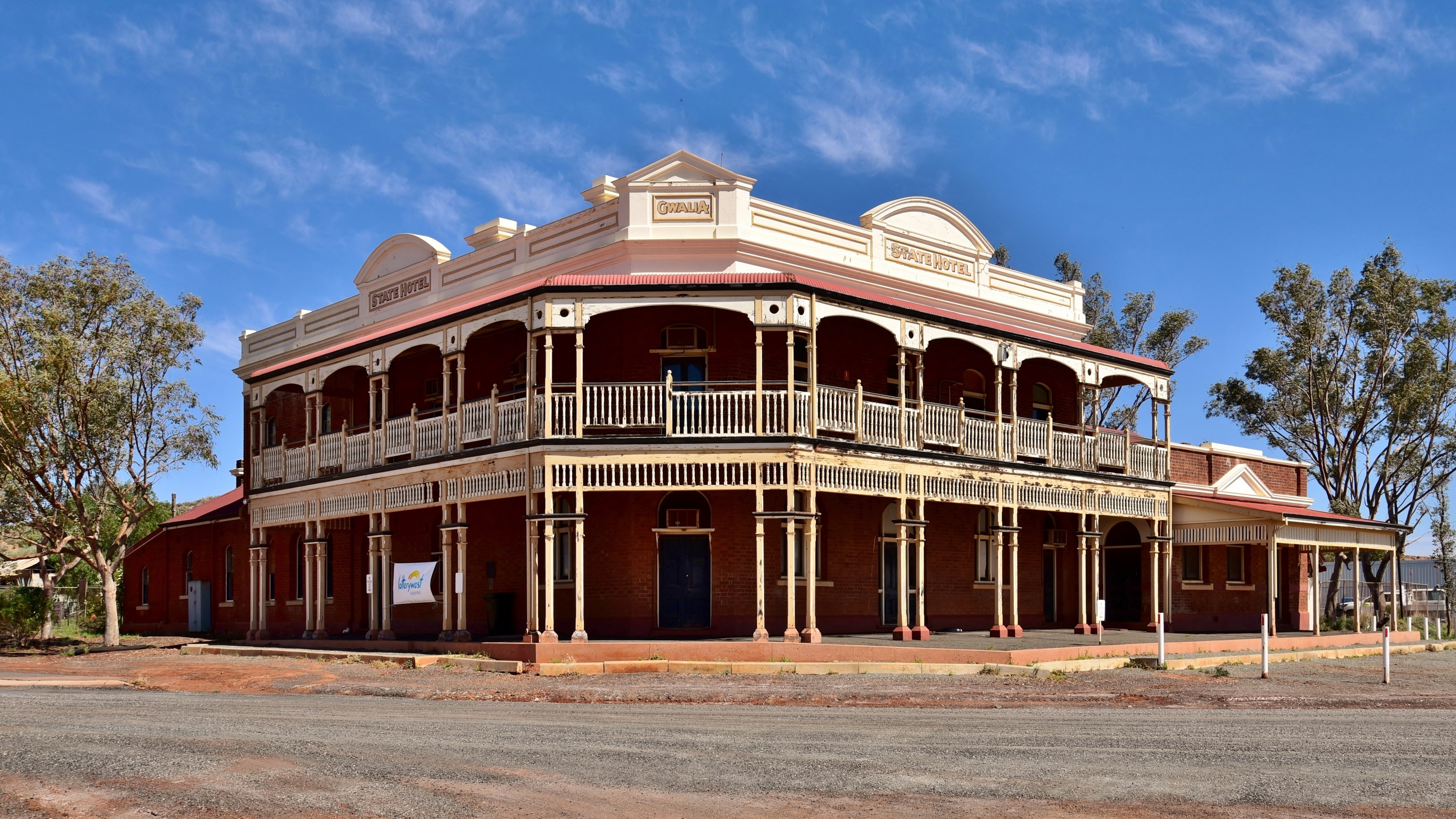 View of the former State Hotel, Gwalia, Western Australia